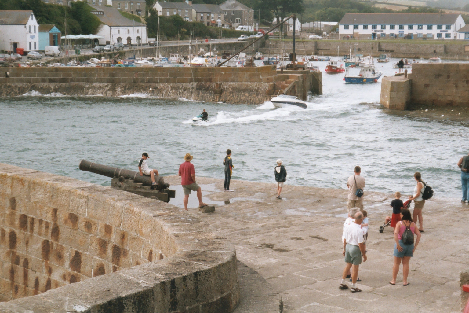 My Own Picture